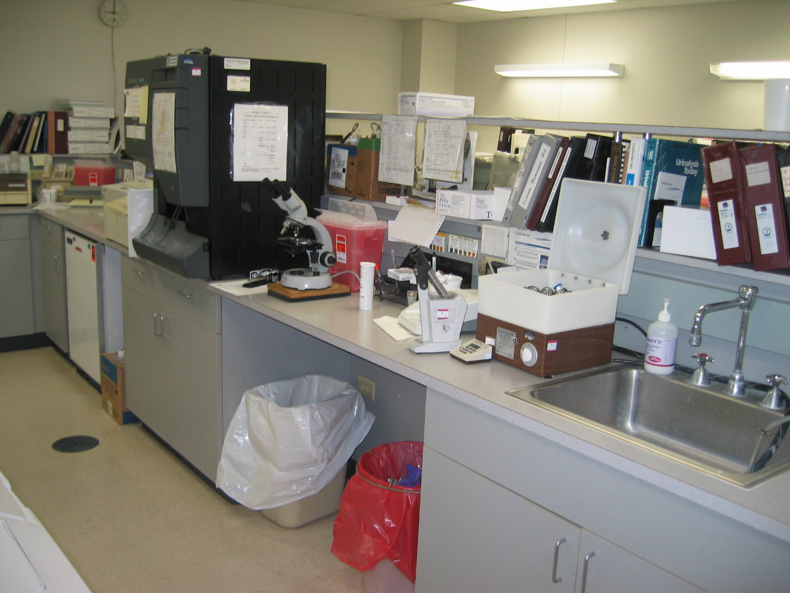 Laboratory analysers: Coulter® on the left for hematology, centrifuge with the top open on the right next to a specific gravity scope and the Urinalysis behind it.